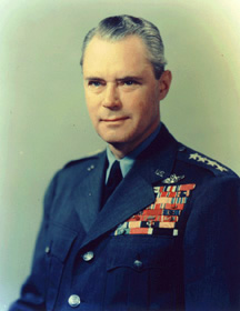 U.S. Air Force Gen. Hoyt Vandenberg, second chief of staff of the U.S. Air Force.